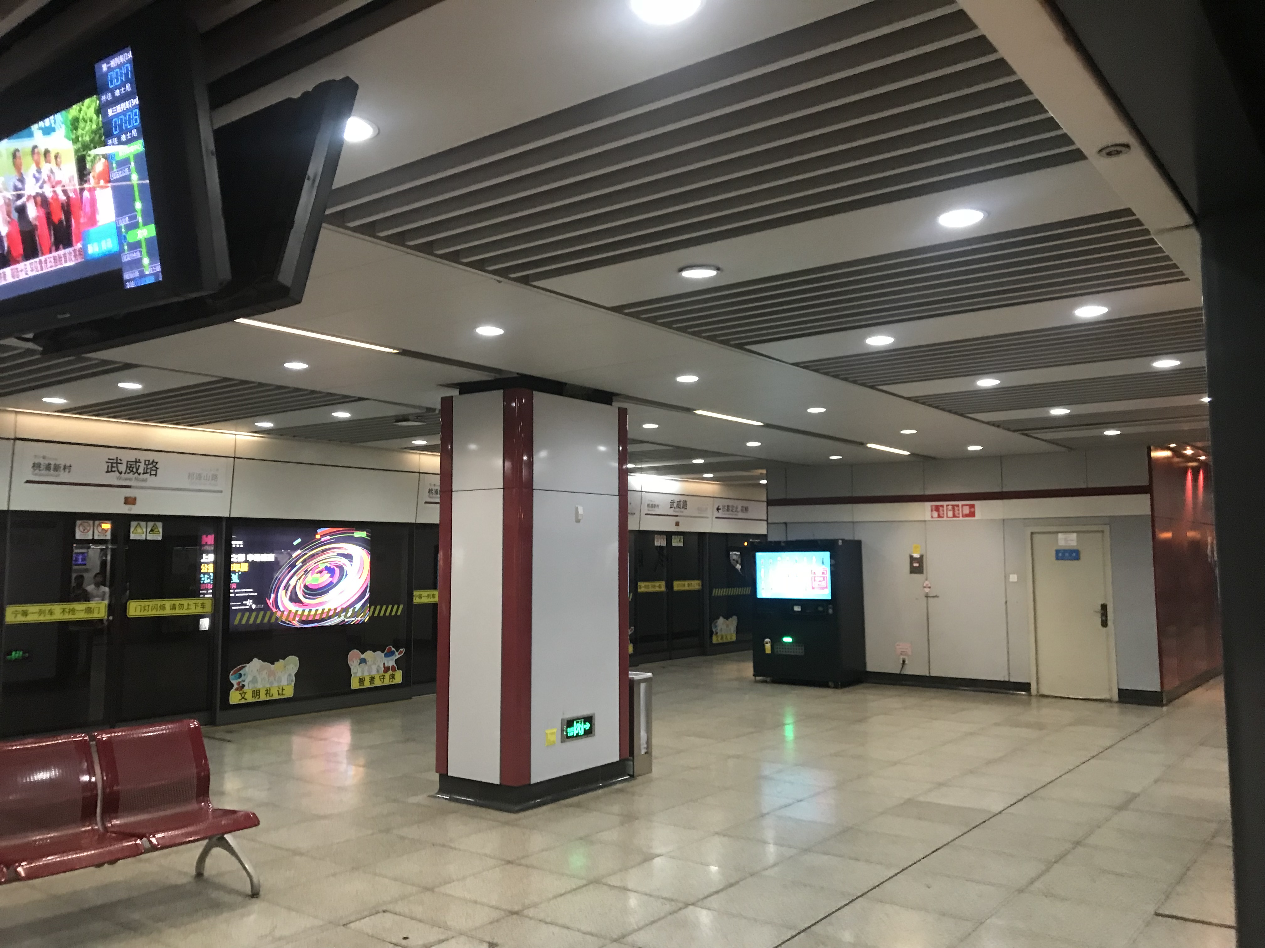 201805 Wuwei Road Station